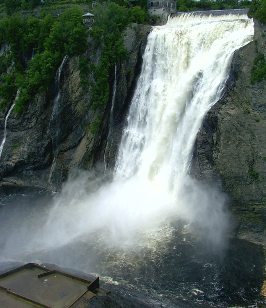 Montmorency Falls outside Quebec City, taken from the top of a very, very long set of stairs set into the cliffside.